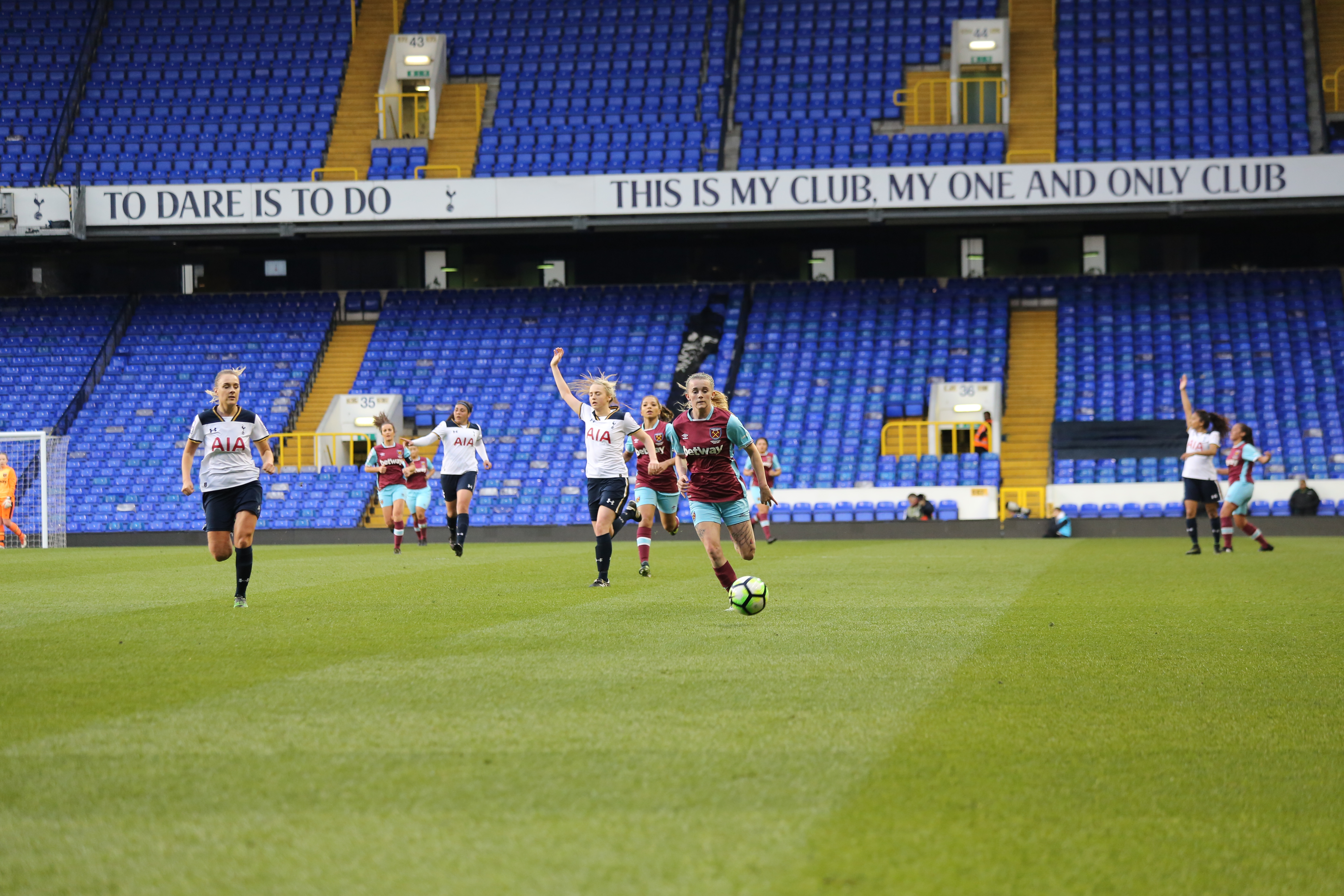 Tottenham Hotspur LFC v West Ham United LFC, 19 April 2017